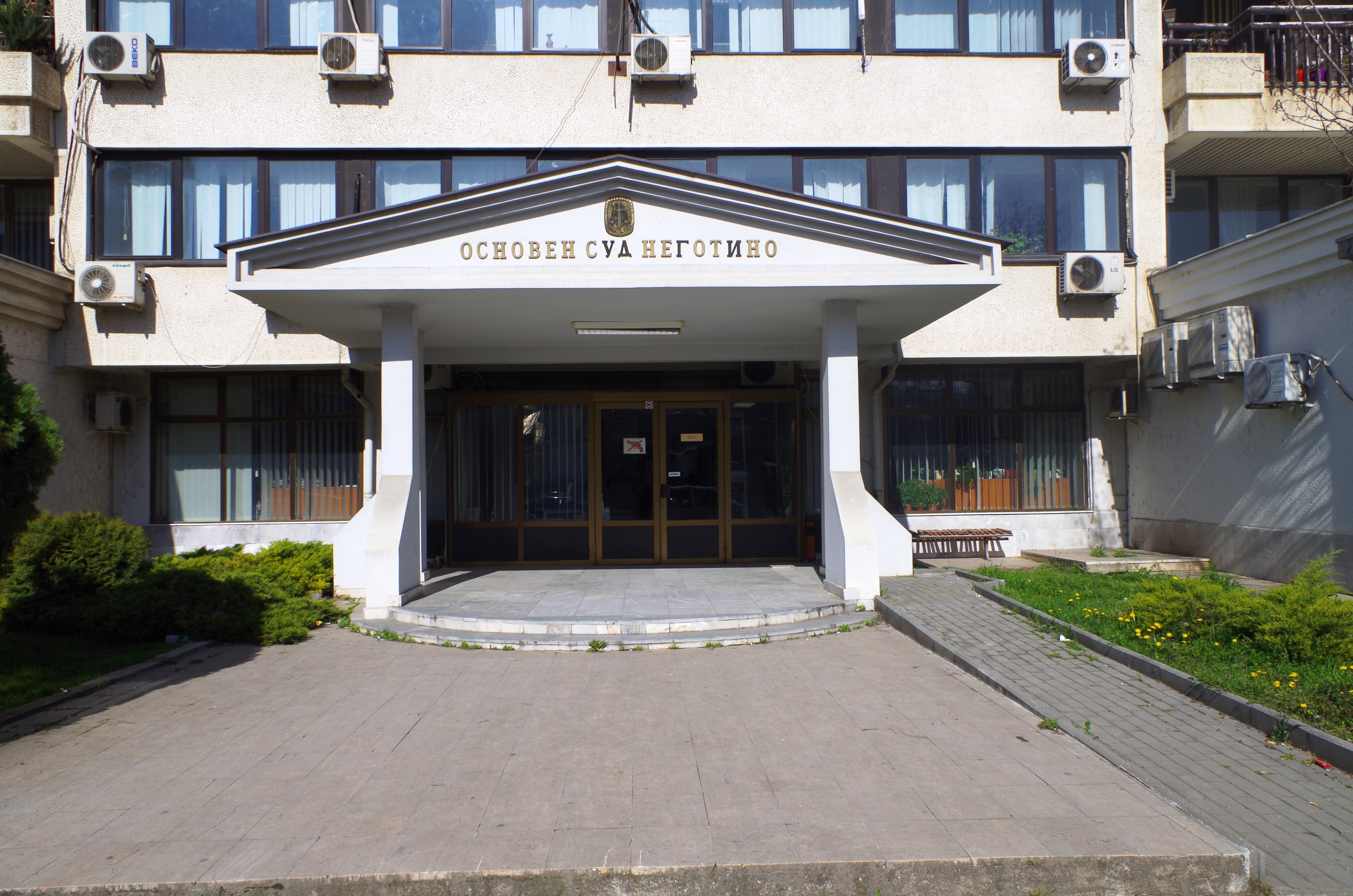 Entrance of the Court of Negotino